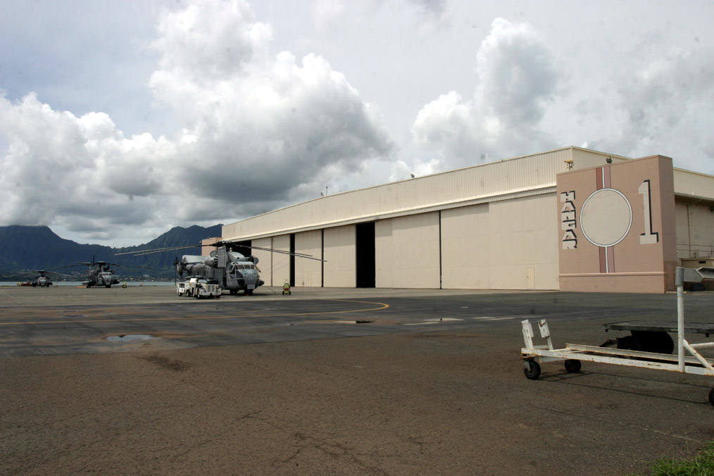 Historic Tour and Guide of the Makapu Peninsula: Hangar 101 Original Caption: "The hangar as it appears today."